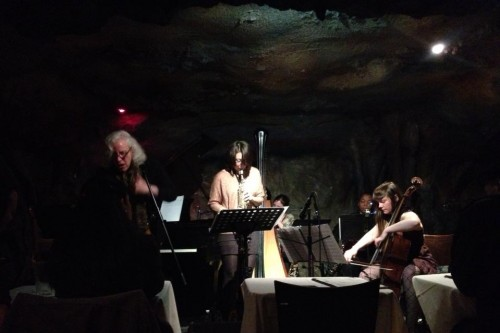 Ensemble Volcanic Ash performing at the legendary Bohemian Caverns lead by composer Janel Leppin.